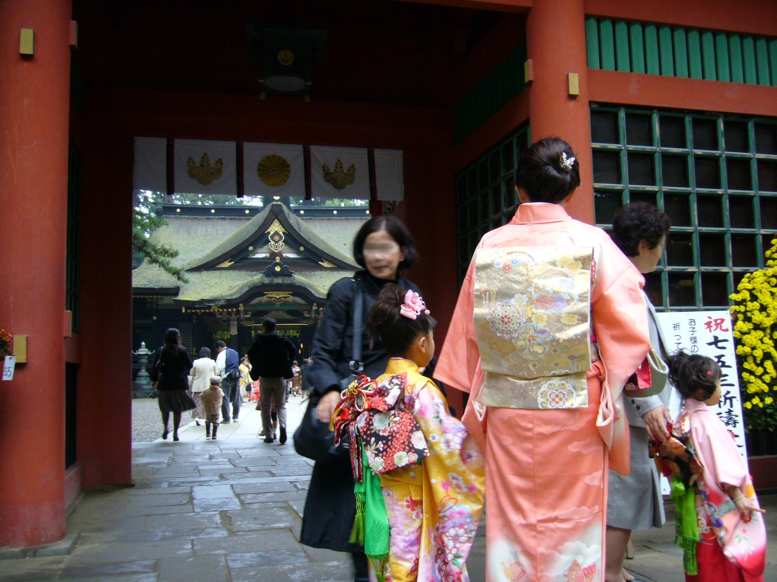 Festival day for the children aged seven, five and three,shitigosan,katori-city,japan